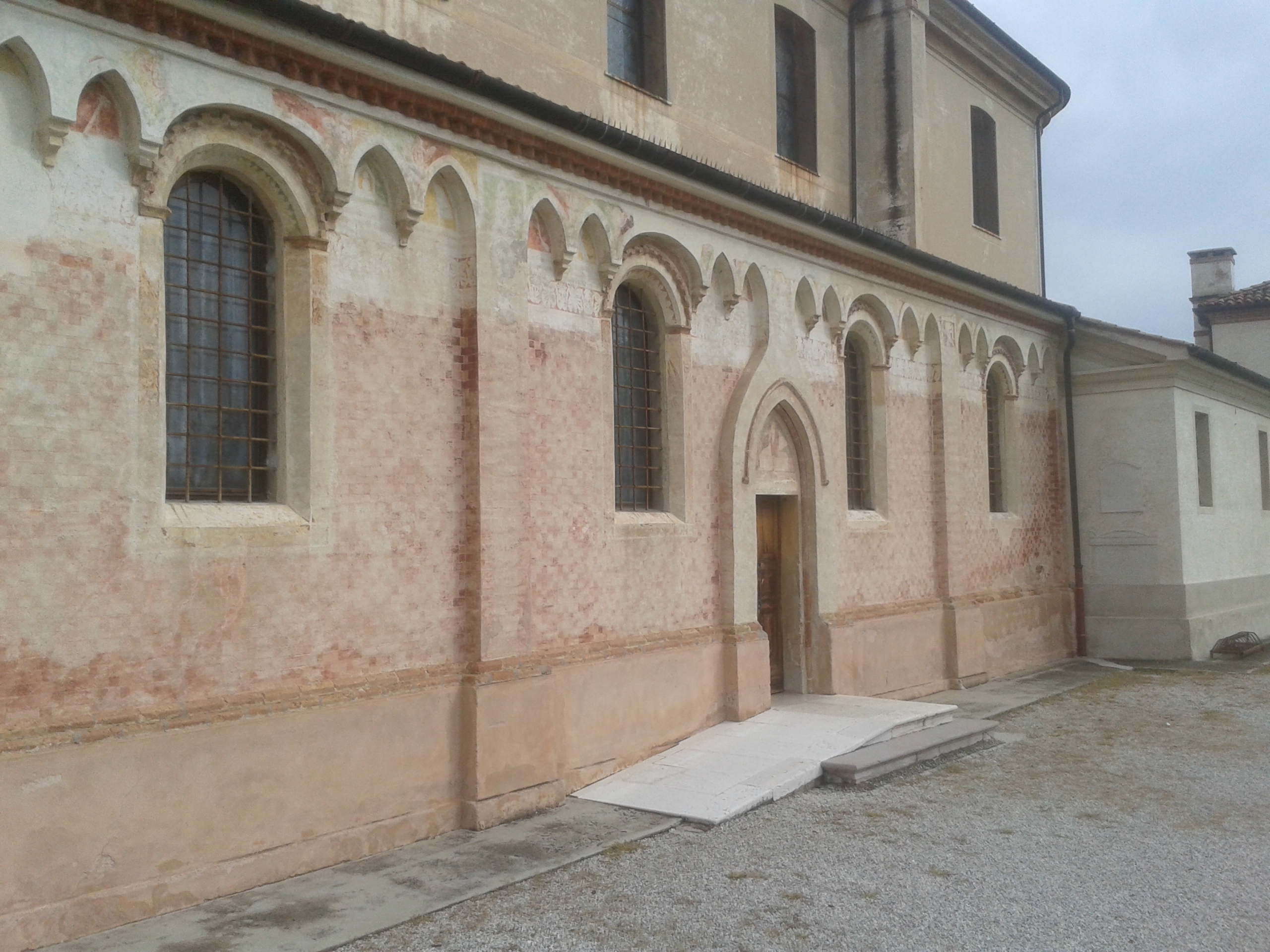 Particolari quattrocenteschi della Chiesa della Visitazione in Canizzano